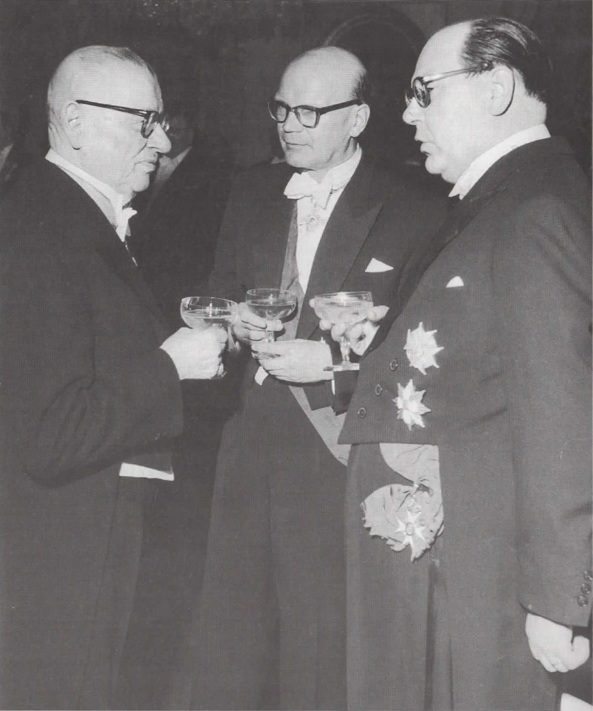 J. K. Paasikivi, Urho Kekkonen and K.-A. Fagerholm, 1950s